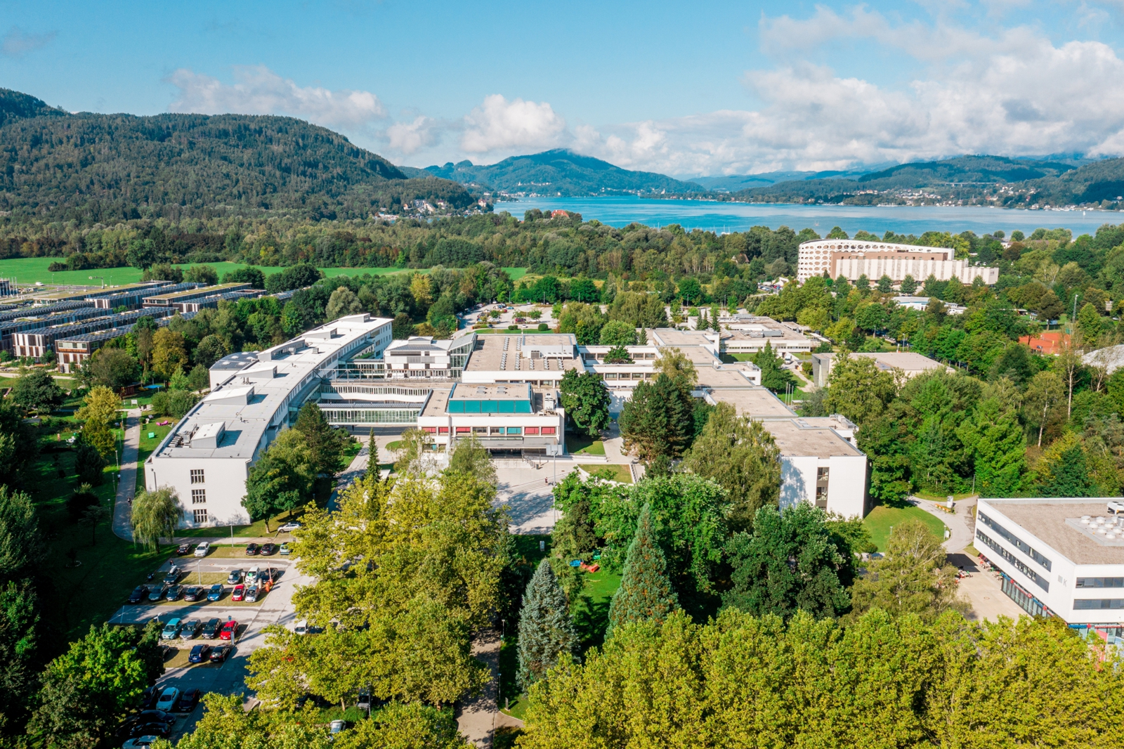 Aerial view of the University of Klagenfurt and the adjacent Lakeside Science & Technology Park